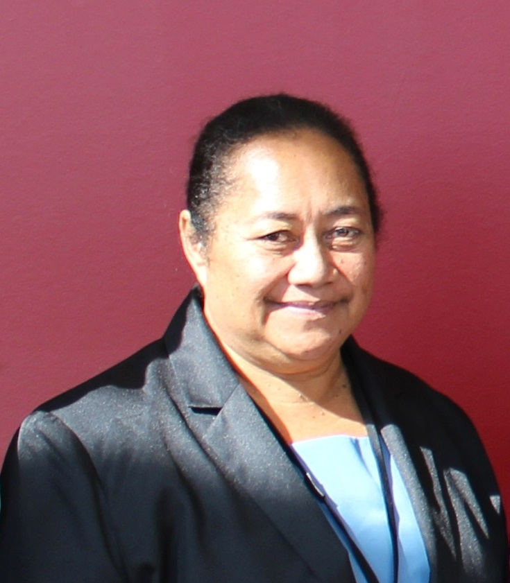 Tongan MP Losaline Ma'asi in Wellington, New Zealand, in 2017